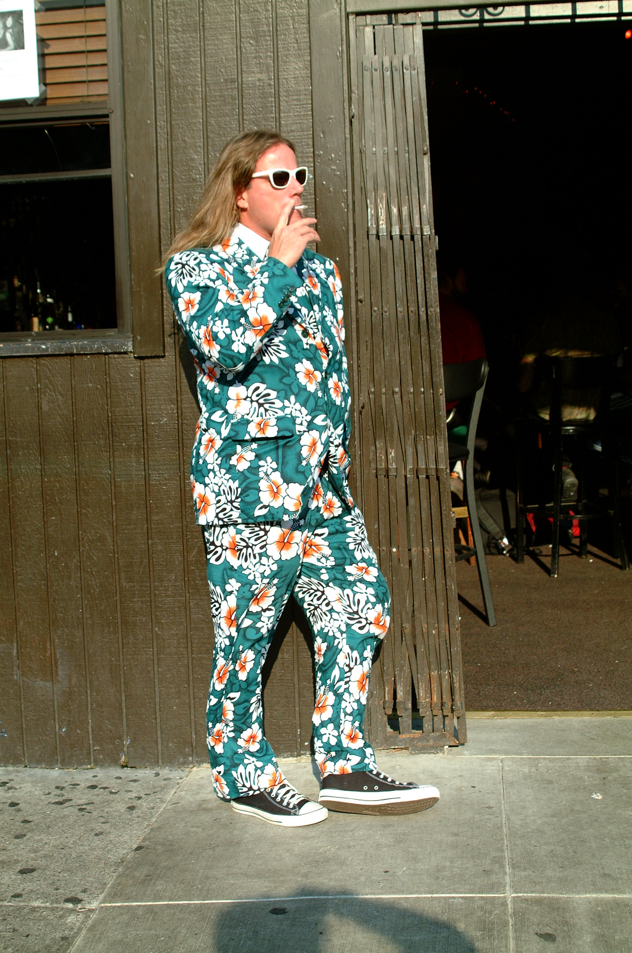 "Hawaiian leisure suit". A bar patron in the Mission in San Francisco.